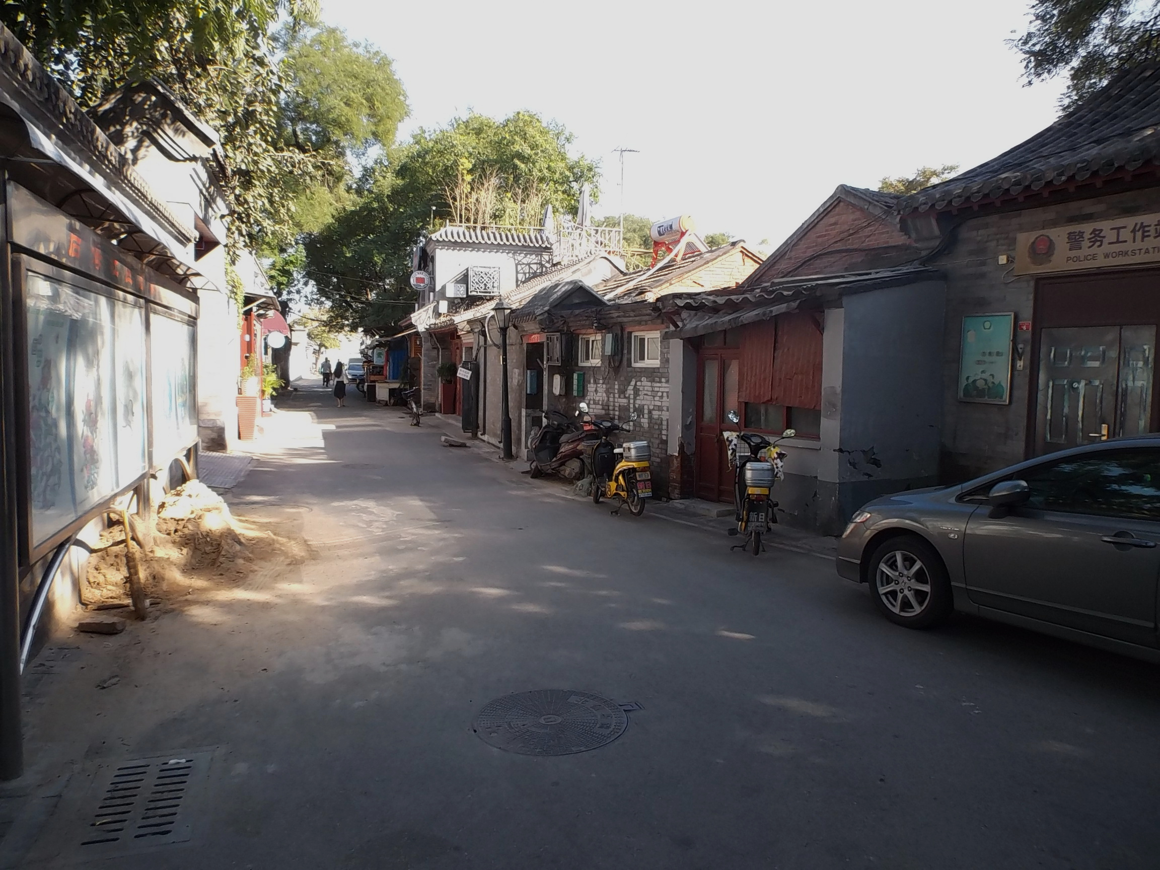 Ya'er Hutong - Beijing, 4.9.2014